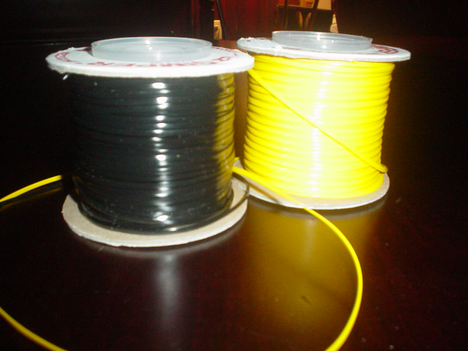 Two spools of gimp. Took pic myself